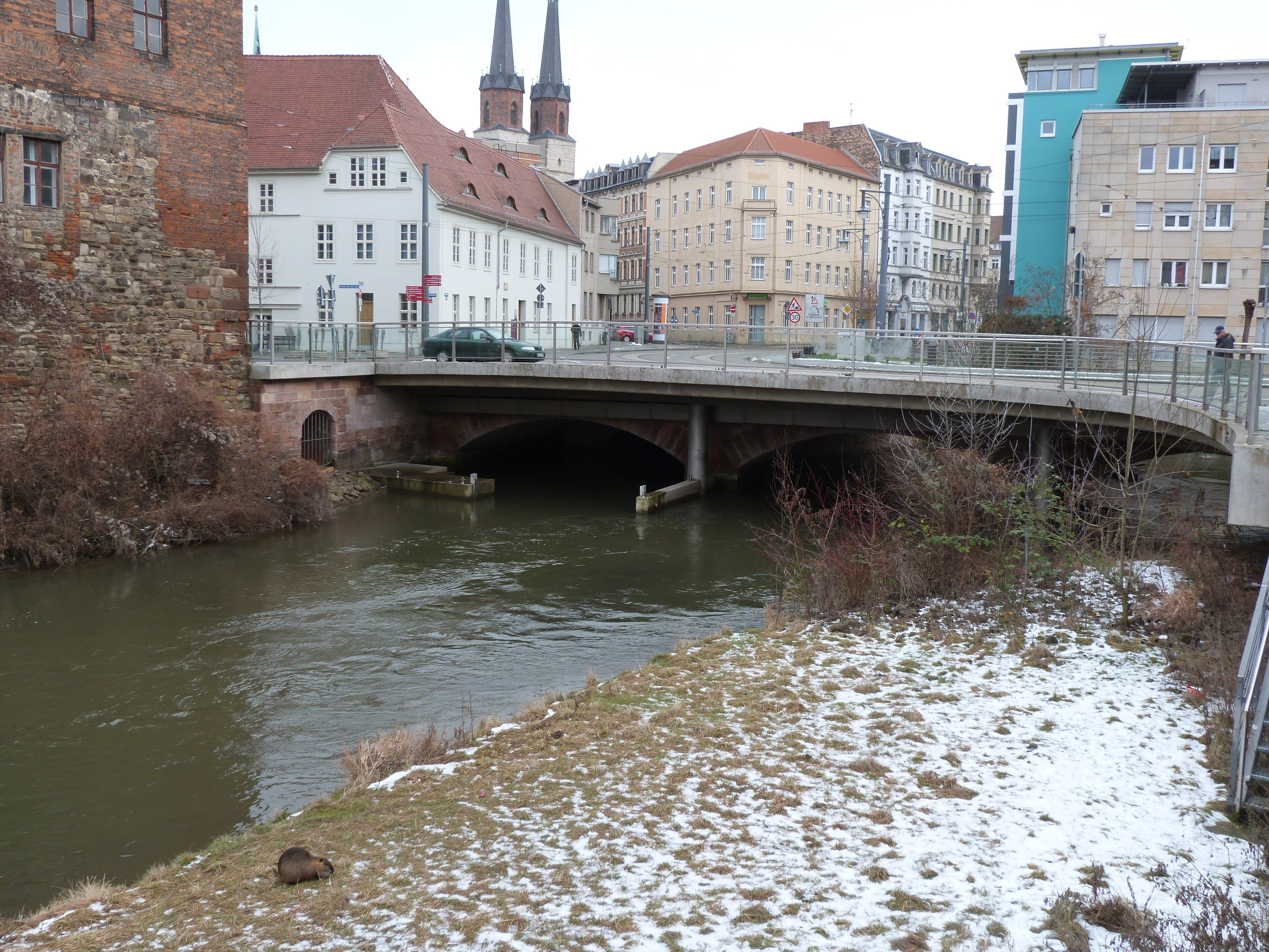 Bridge Klausbrücke in Halle (Saale)